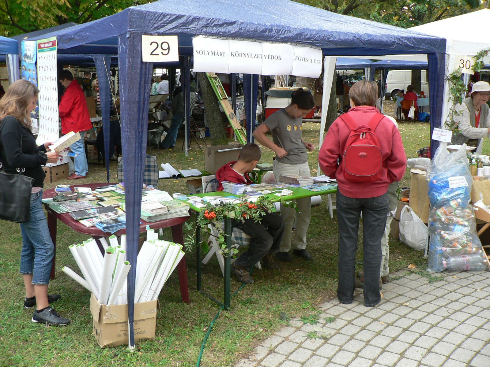 Az SKE standja a Solymári Búcsúk egyikén